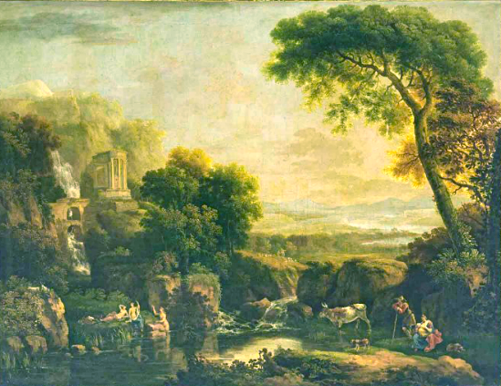 An Italianate river landscape with travellers, revellers and a waterfall.